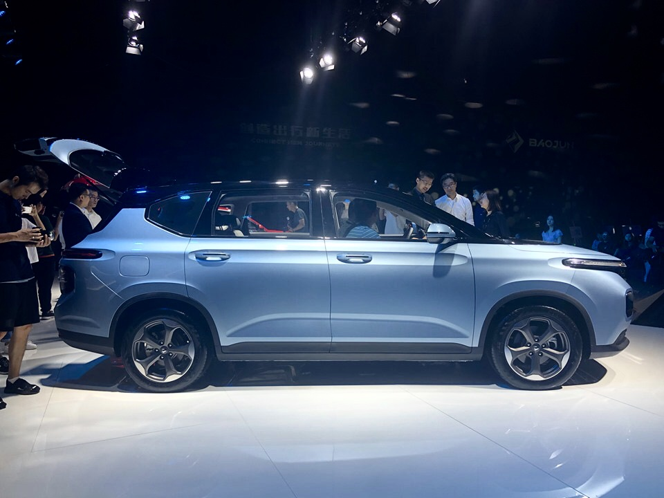 Baojun RM-5